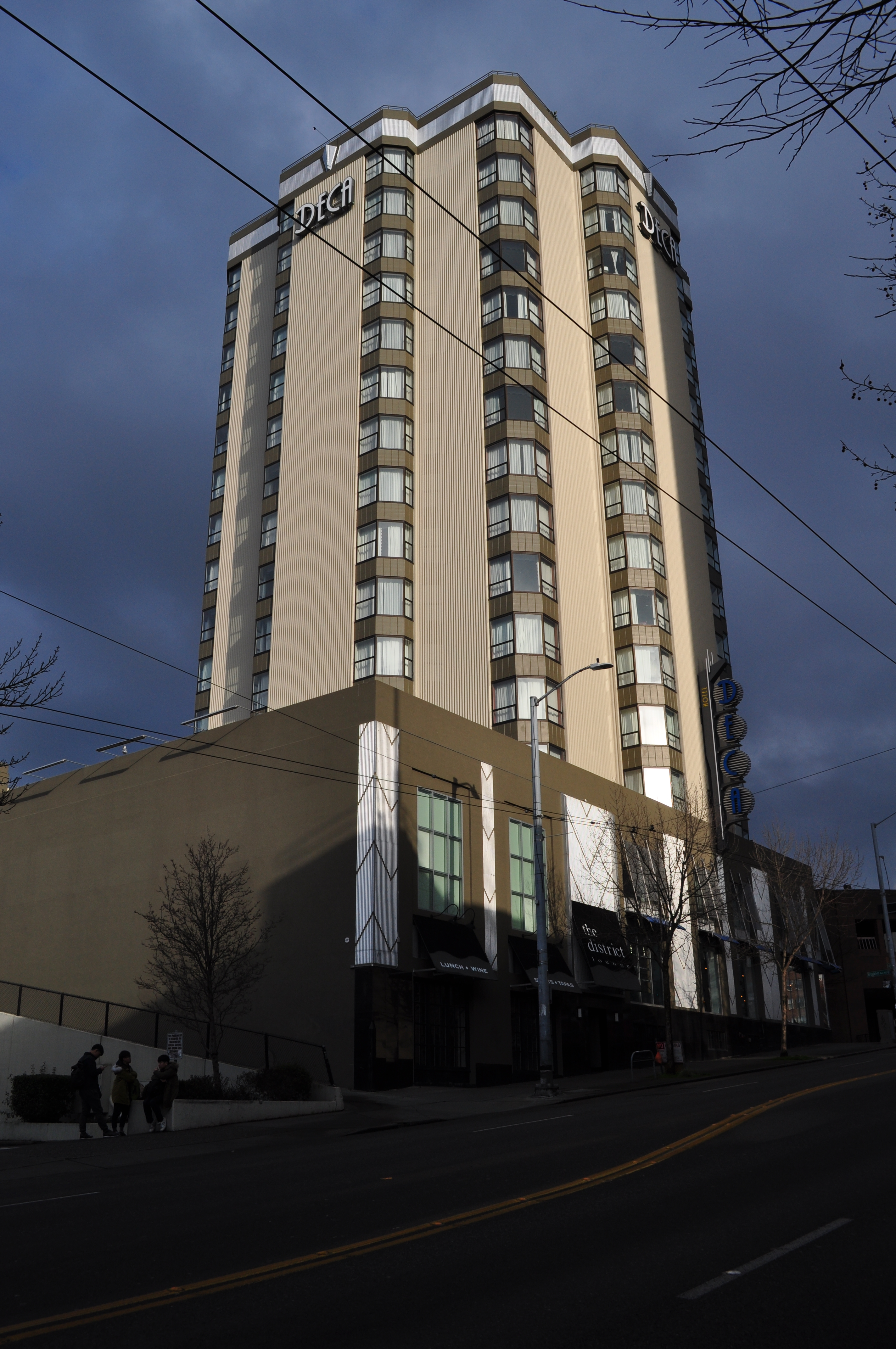 Hotel Deca, originally Edmund Meany Hotel, then University Tower Hotel. Summary for 4507 Brooklyn AVE, Seattle Department of Neighborhoods unfortunately says very little about the building, while saying that it "appears to meet the criteria of the National Register of Historic Places... [and] Seattle Landmarks Preservation Ordinance".